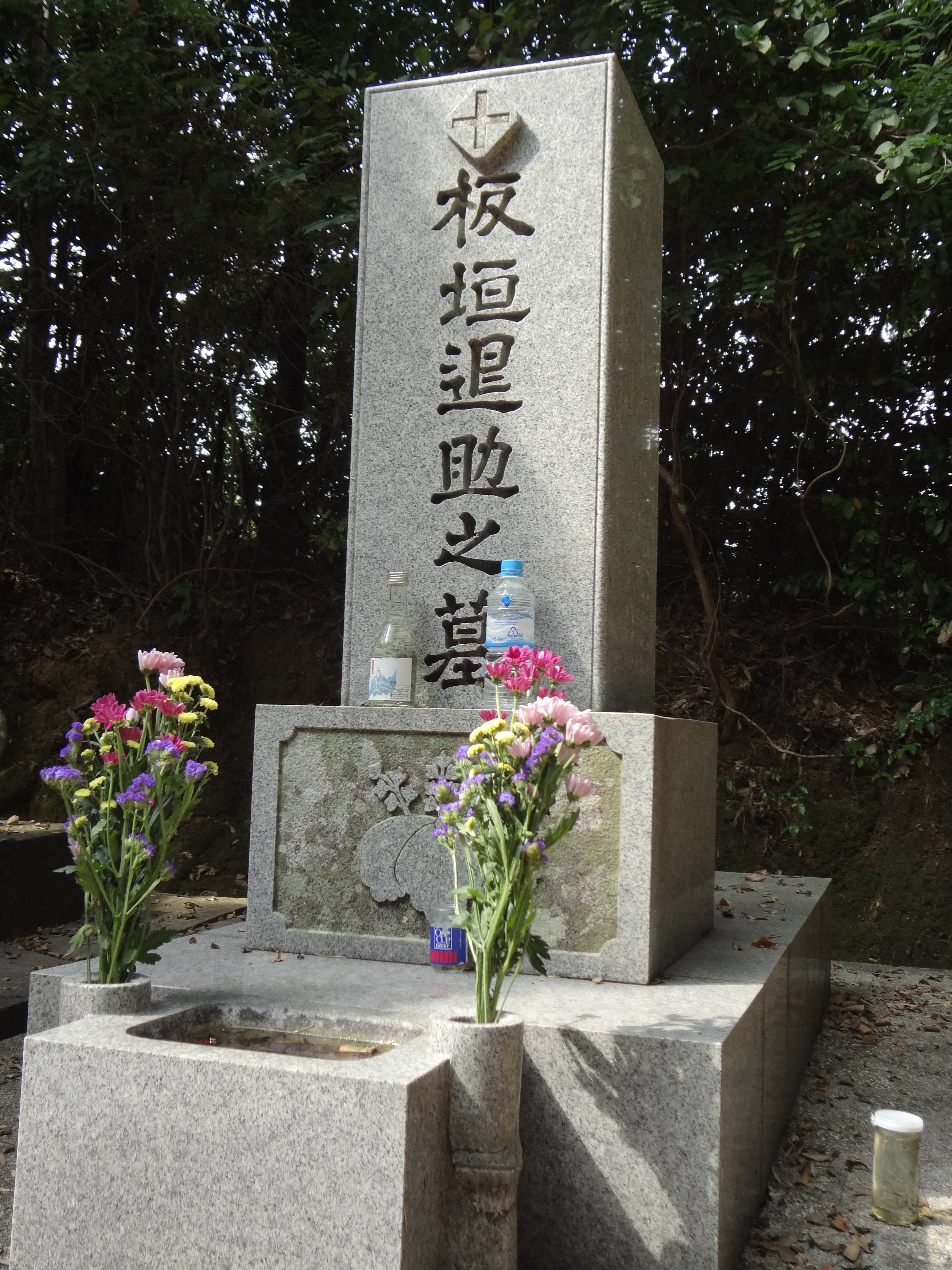 The tomb of ITAGAKI TAISUKE (1837-1919), Kouchi,Japan